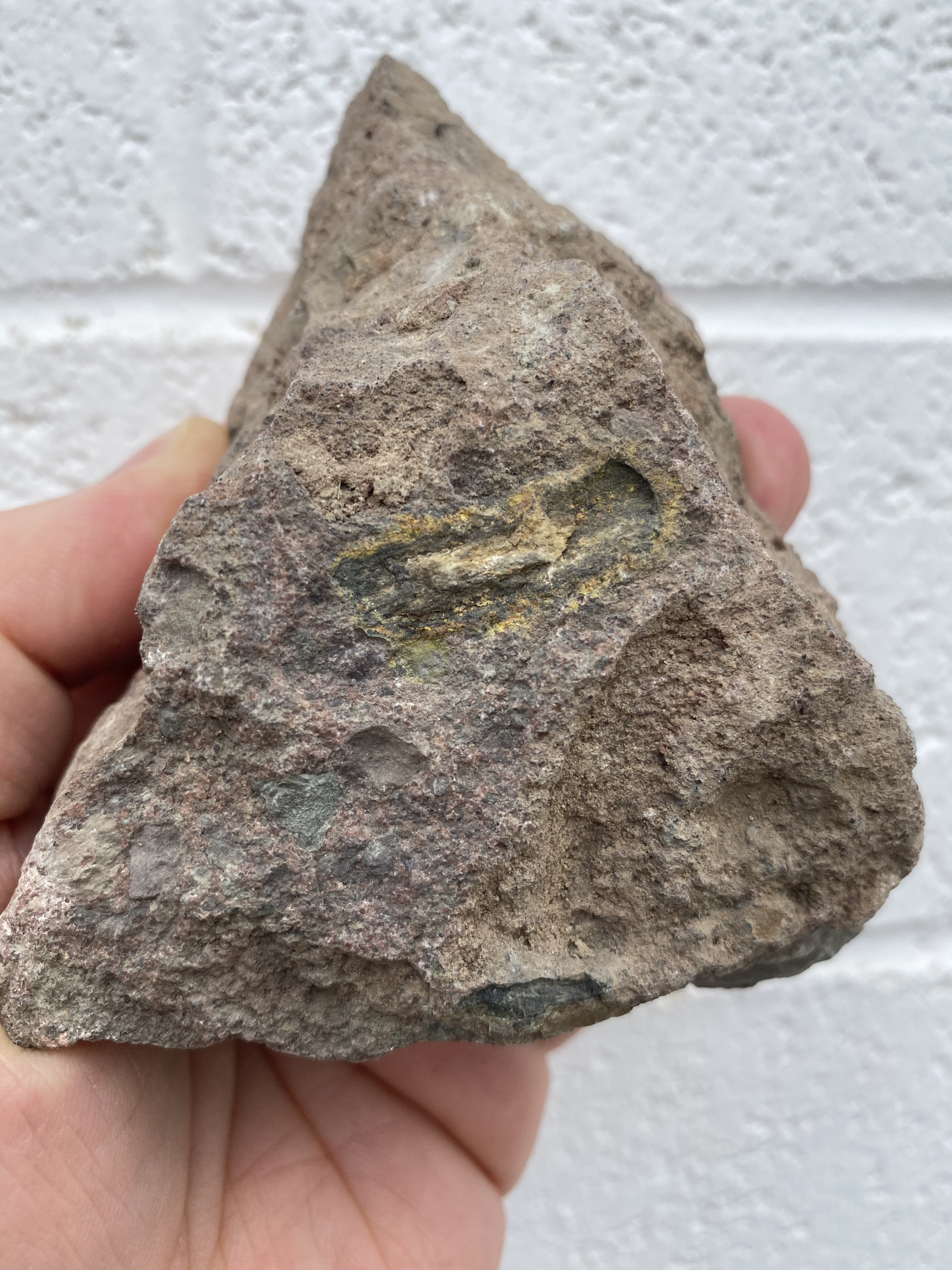 Adult hand for scale. Sample taken from a location near Moab, Utah.